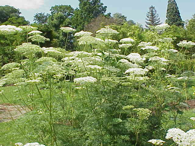 Species: Cnidium silaifolium Family: Apiaceae Image No. 1